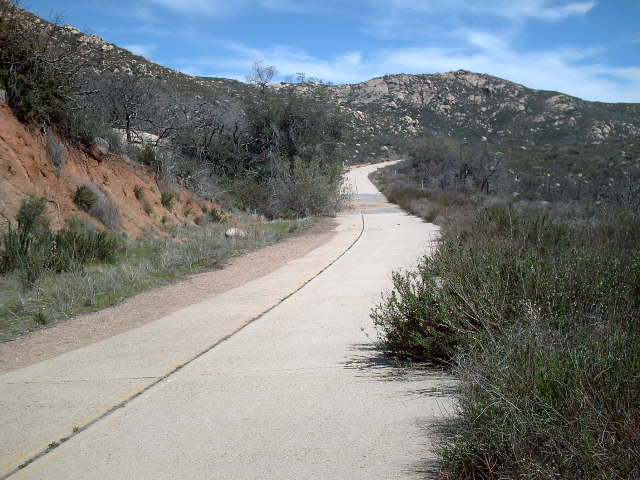 A section of old U.S. Route 80 west of Descanso Junction, California. Taken in March 2007. This section is not open to vehicular traffic. Photographer: Bob DuHamel